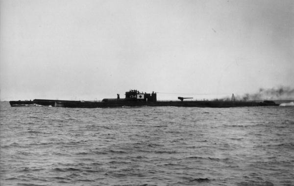 Japanese submarine I-54 (B-class newtype-2), on trial run at Tokyo Bay.